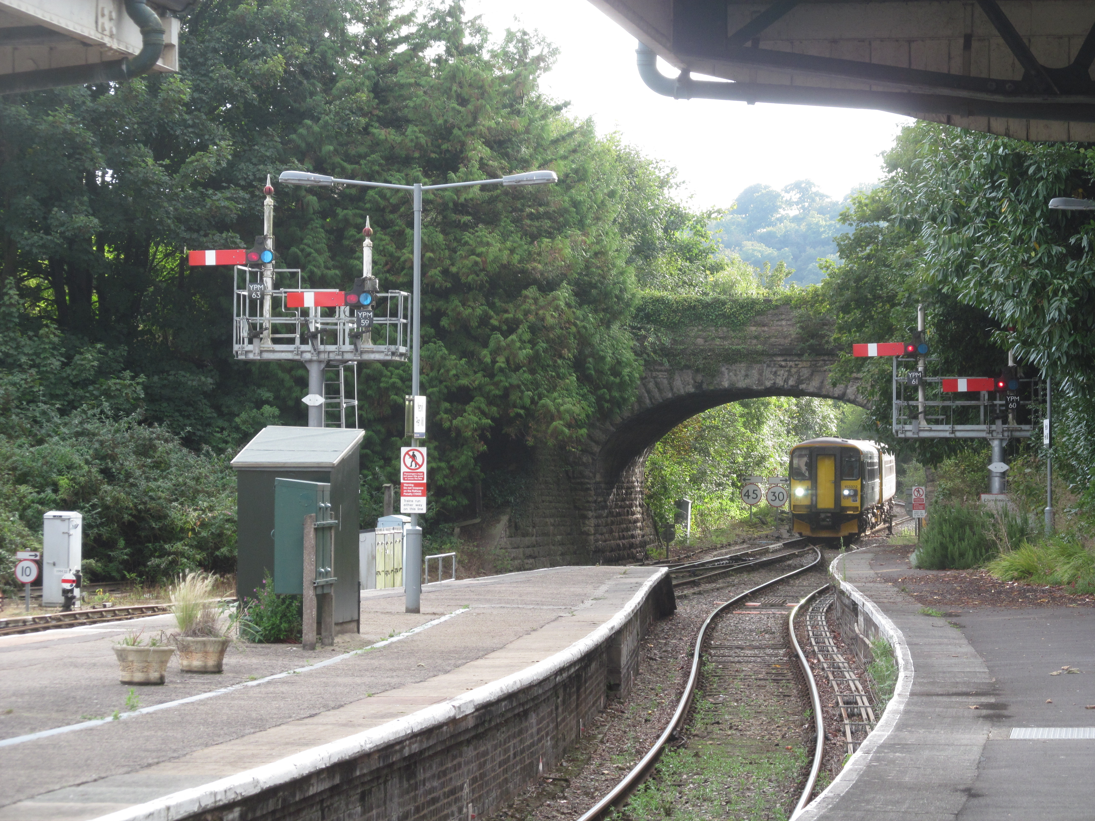 153372 approaching Yeovil Pen Mill railway station